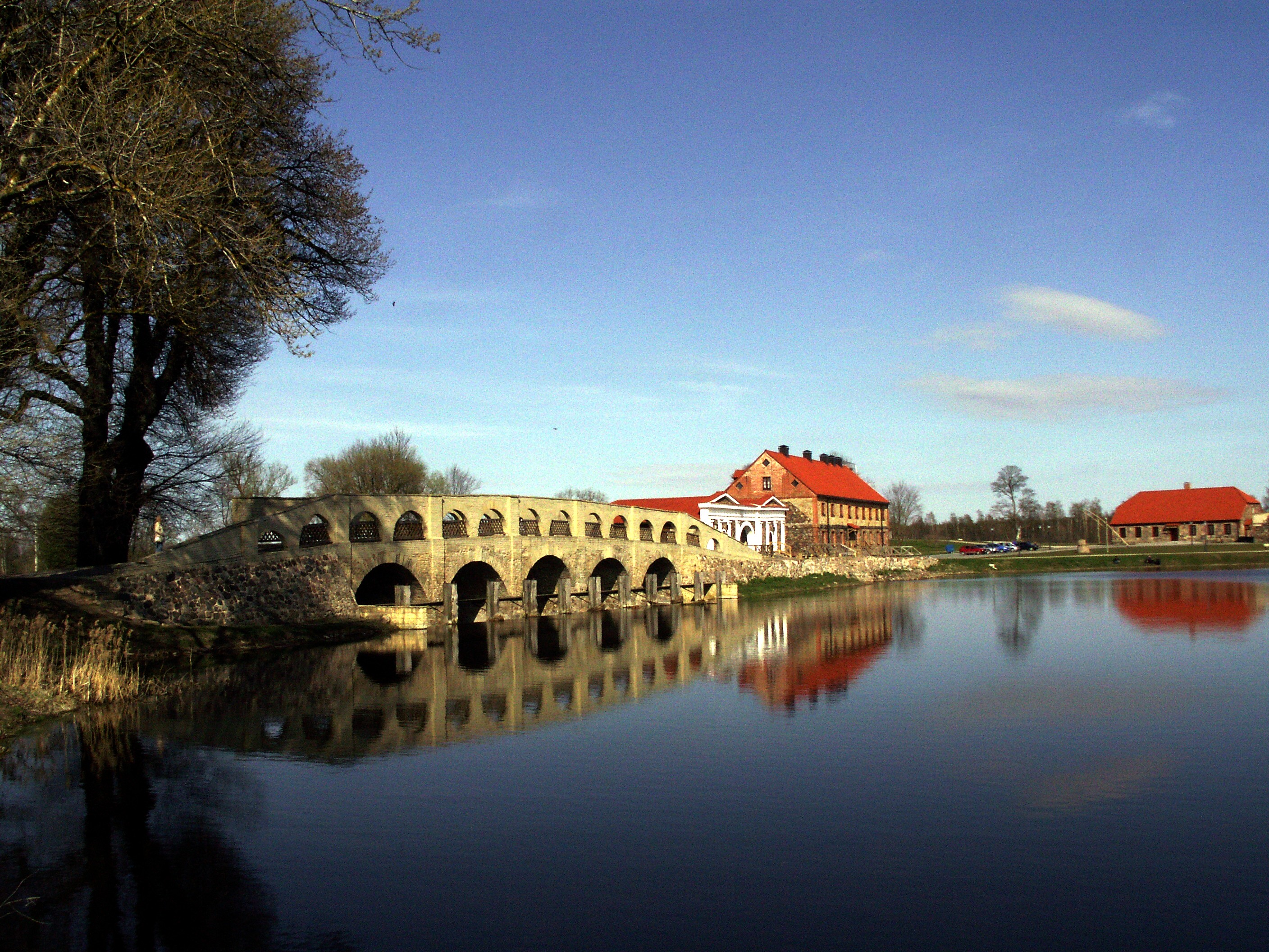 Manor Pakruojis, Lithuania